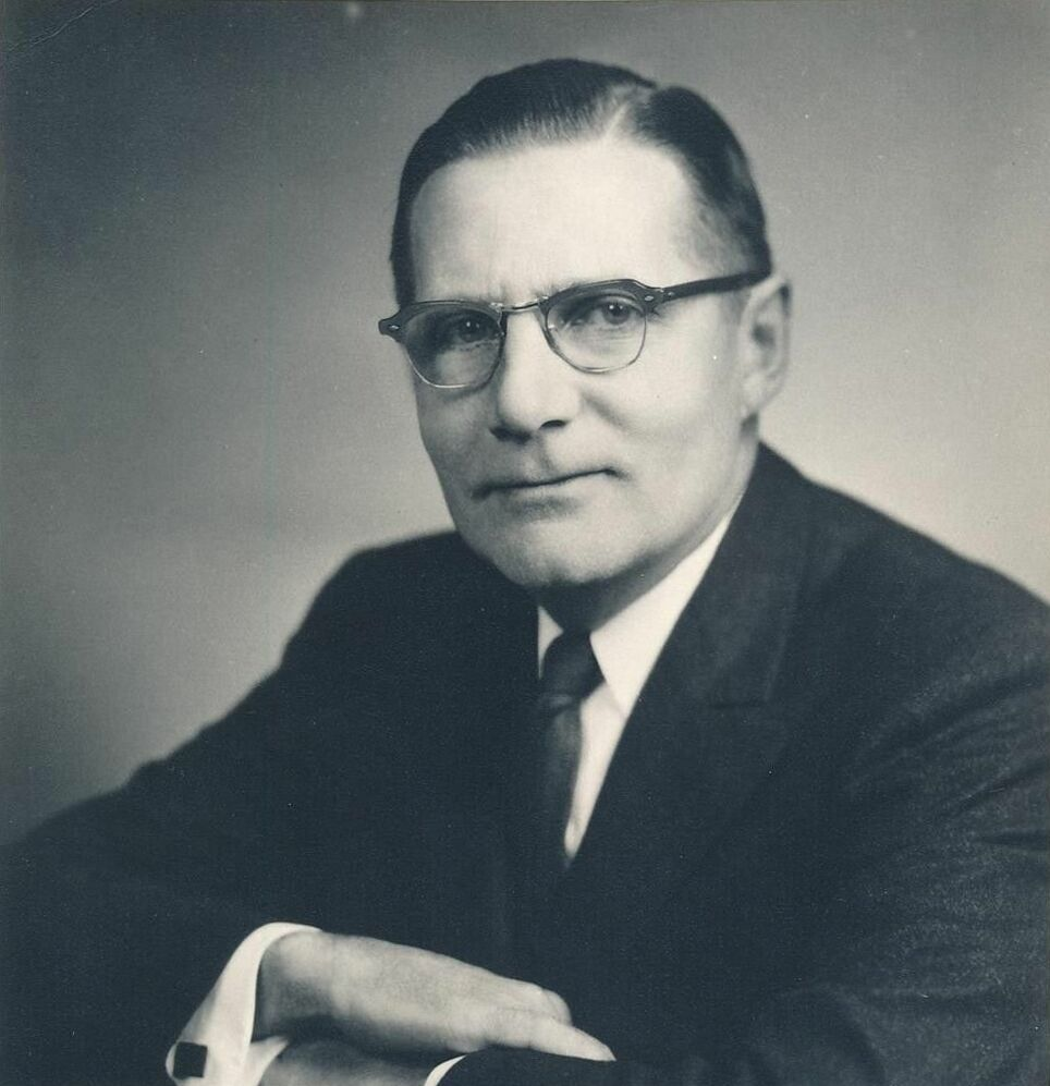 Winston L. Prouty